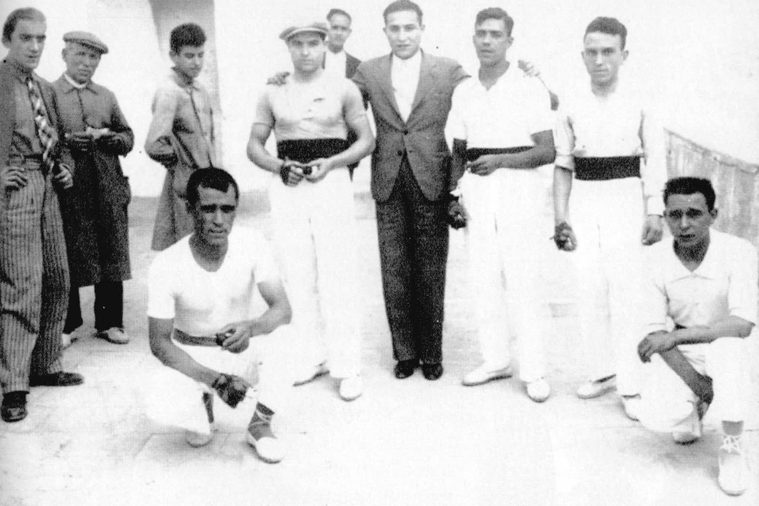 1920s Valencian pilota players at Alcoi.